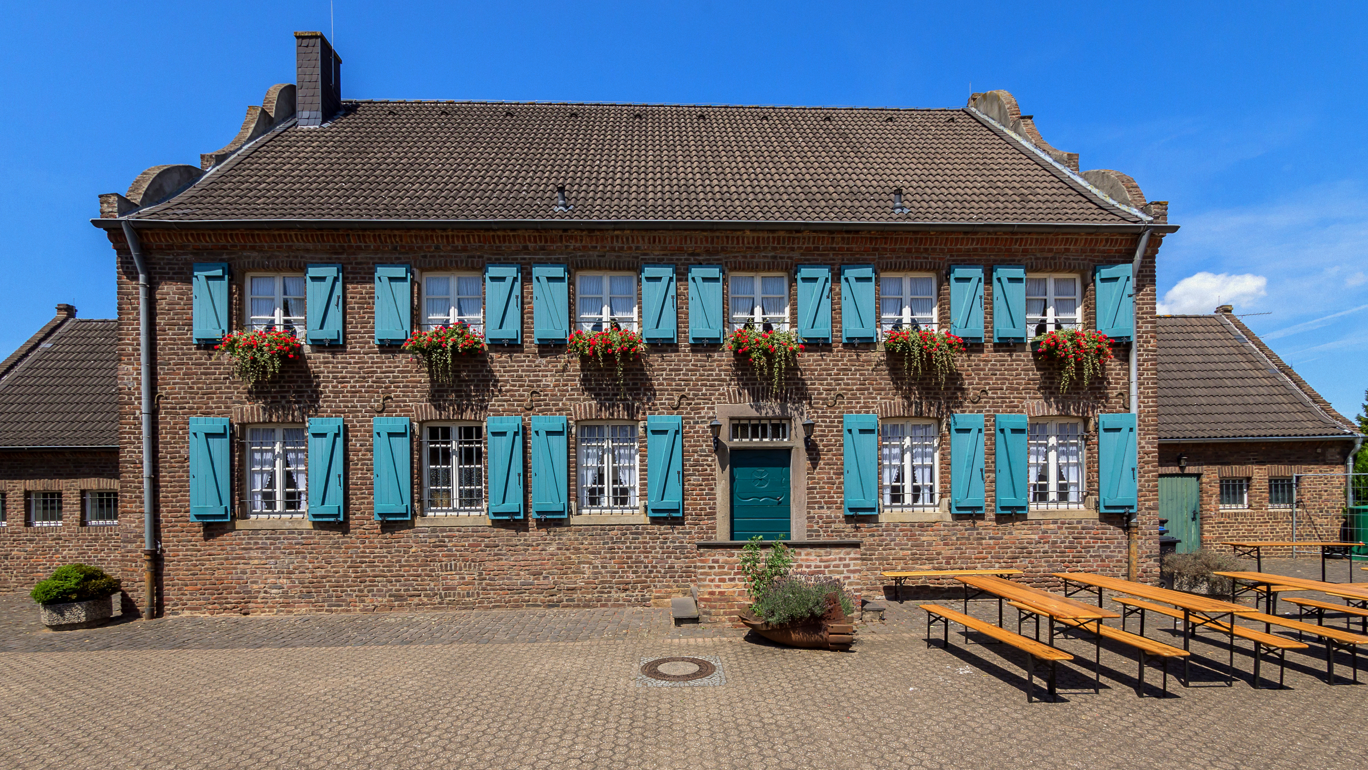 Auenheim - Lourther Weg 2 Sog. Ordenshof VIIIThis is a photograph of an architectural monument., no. 30